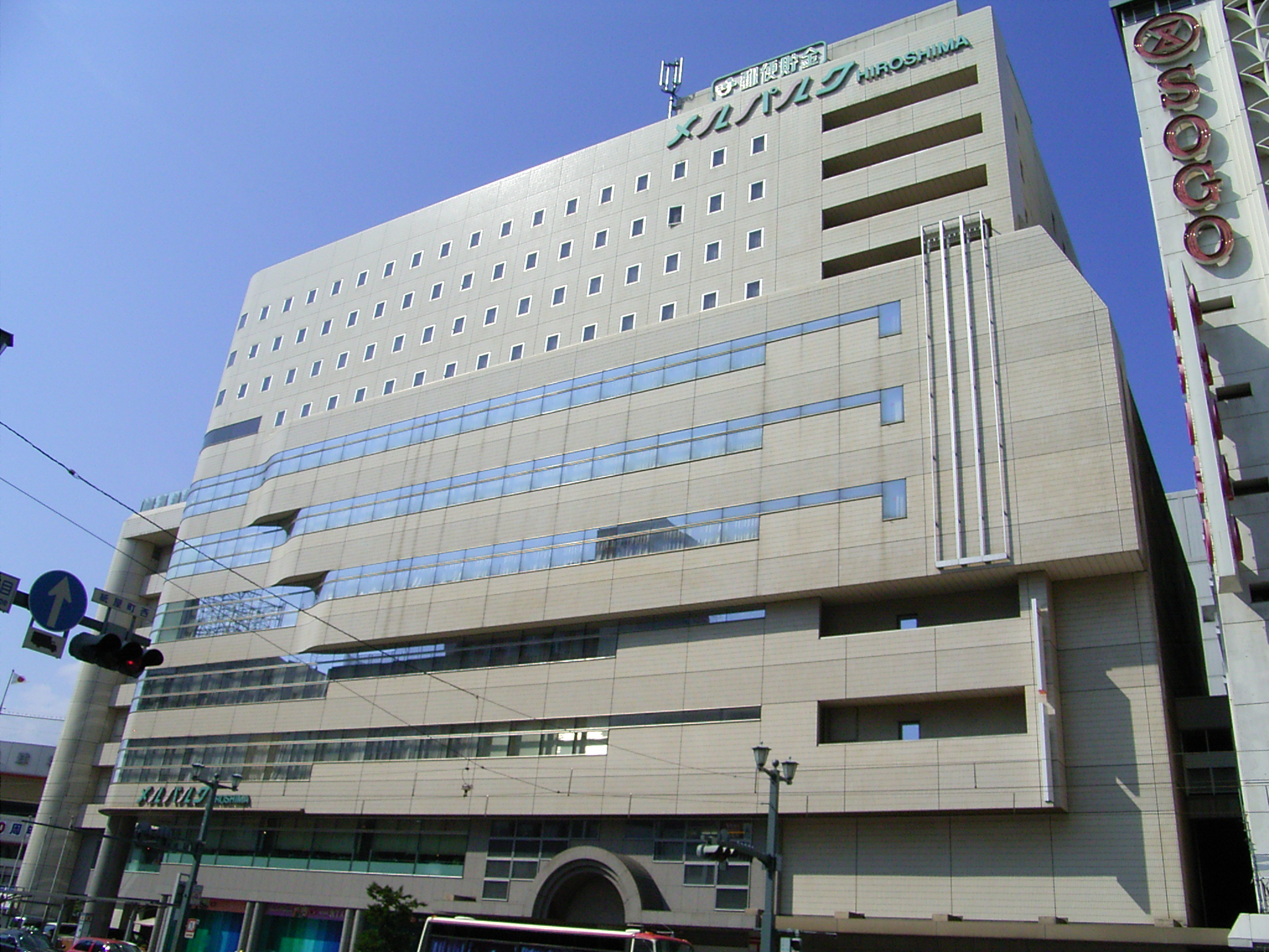 Mielparque Hiroshima and the Hiroshima Post Office, Japan Postal System